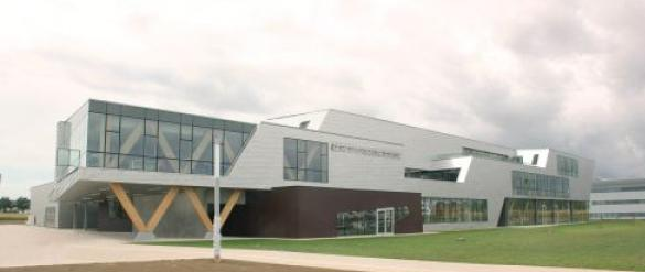 Exterior view of the buildings of the french engineer school ECAM Strasbourg-Europe based in Schiltigheim